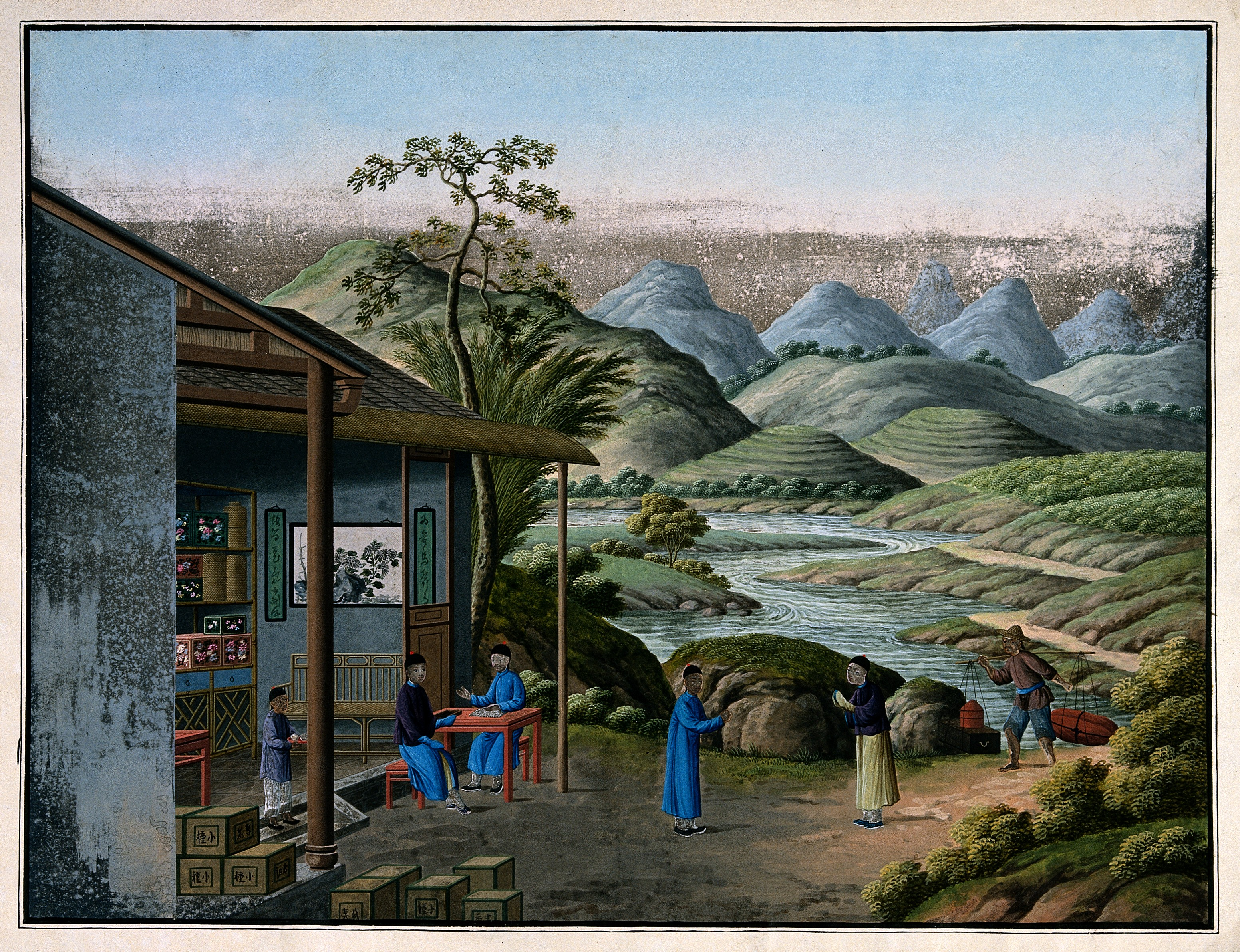 A tea plantation in China with workers packing the tea into boxes. Gouache painting with oxidization. Iconographic Collections